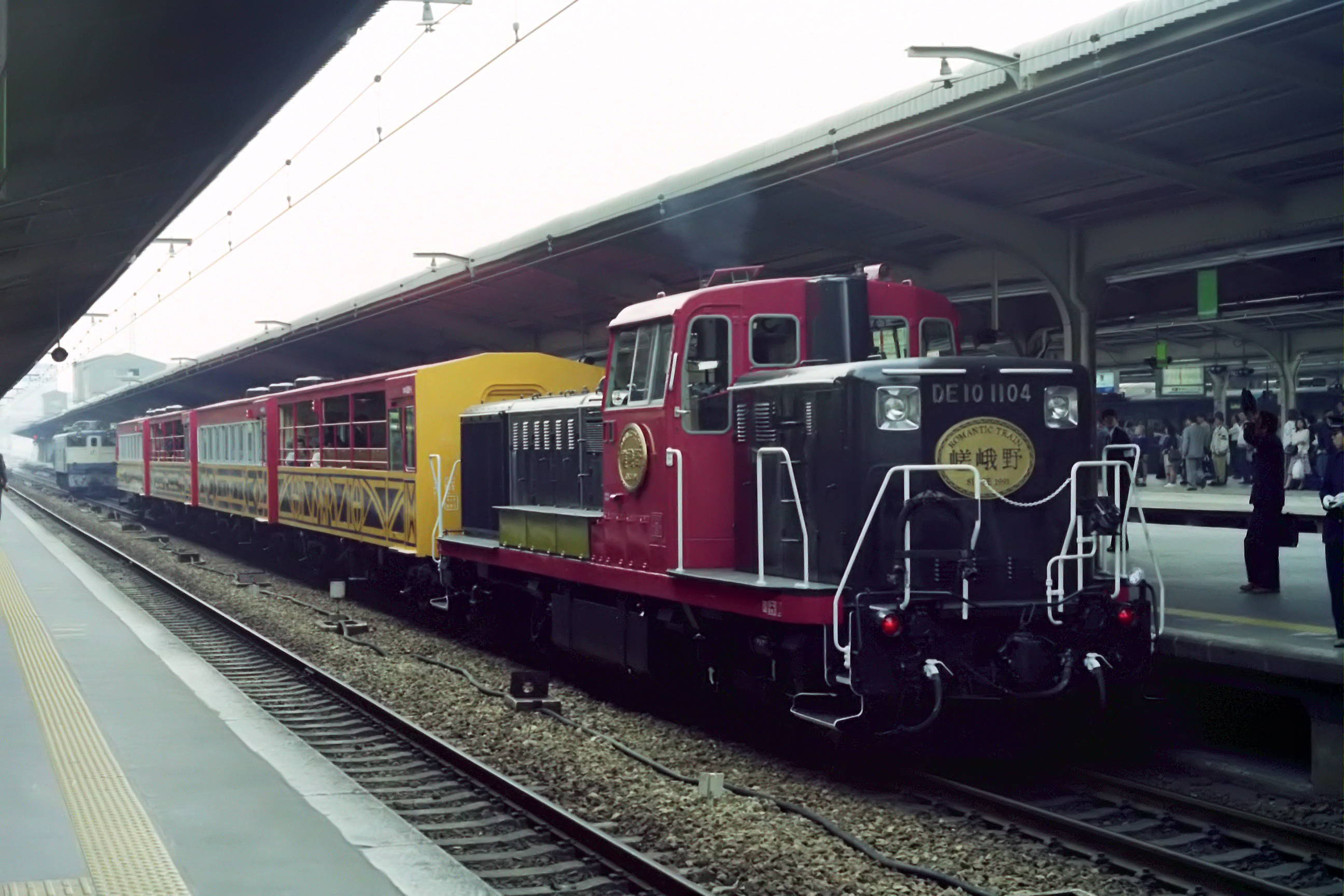 DE10 1104 at Osaka Station